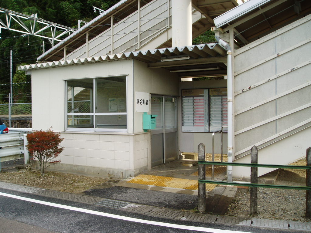 JR Central(Central Japan Railway Company)Chūō Main Line Ochiaigawa station building. （Marinesnow5 (talk)'s file） Date:2011-10-20. Author:Marinesnow5 (talk). location:Ochiai, Nakatsugawa-City, Gifu-Prefecture, Japan.